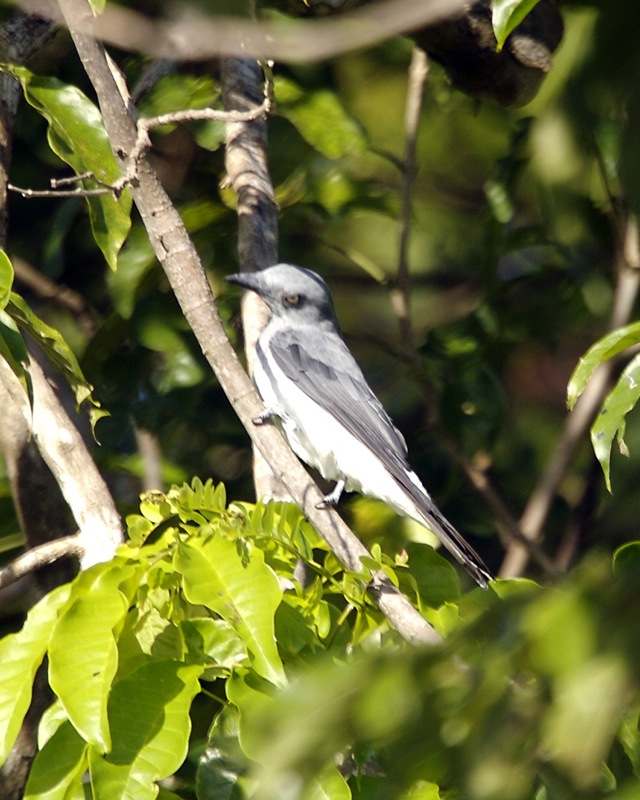 Ashy Minivet Pericrocotus divaricatus Tangkoko, Sulawesi, Indonesia 9th. July 2006 _Q0S0552